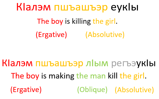 FormingTrivalentVerbsFromTransitiveVerbs